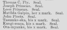 Letter from the Secretary of the Interior, transmitting, in compliance with a resolution of the Senate of December 6, 1883, report of Commissioner of Indian Affairs submitting copies of Sioux agreements to cession of land to the United States, with correspondence connected therewith Excerpt showing the signature of Matilda Galpin, Eagle Woman, signing among the chiefs and headmasters of the Sioux